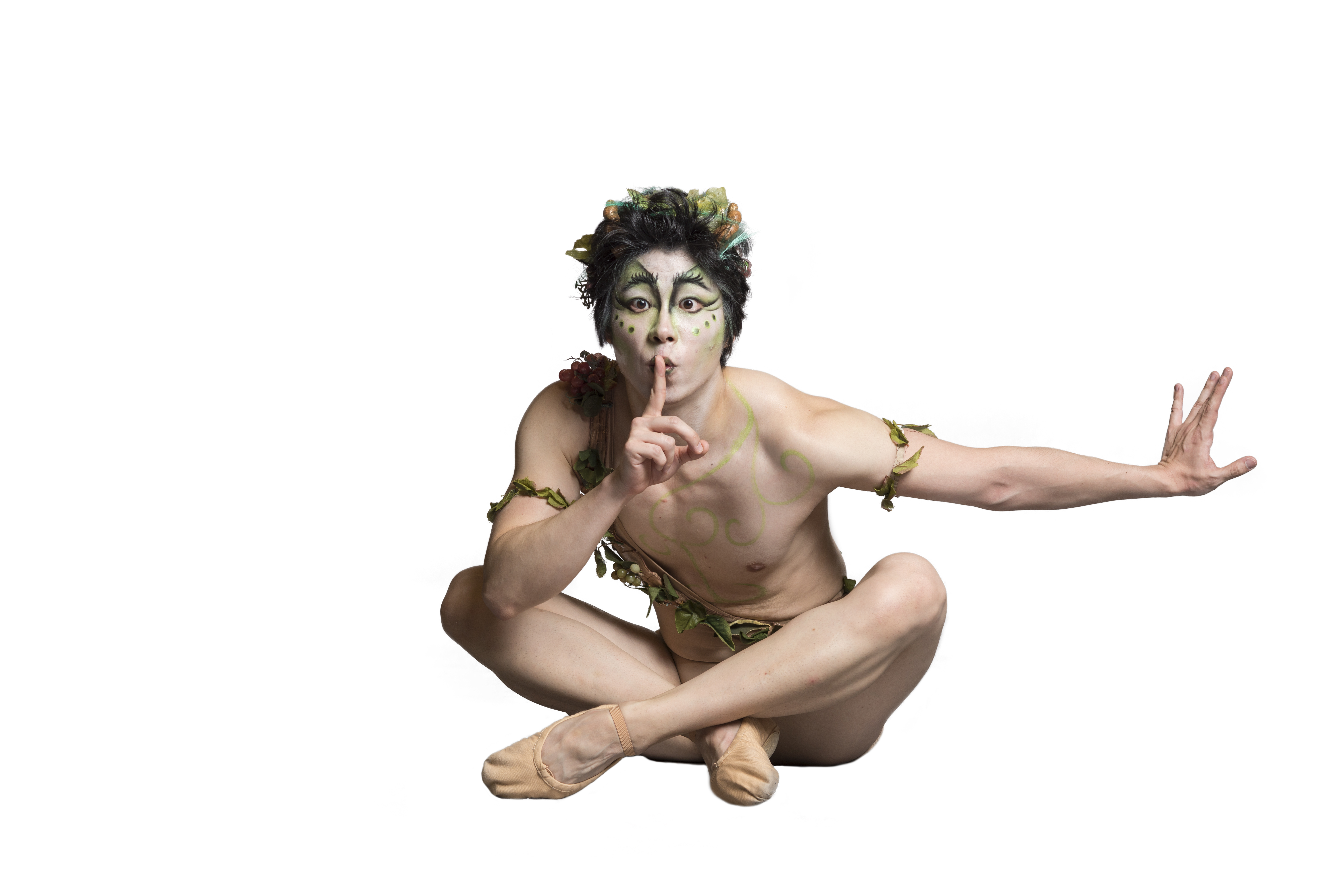 KCB Company Dancer Yoshiya Sakurai Photography: Kenny Johnson